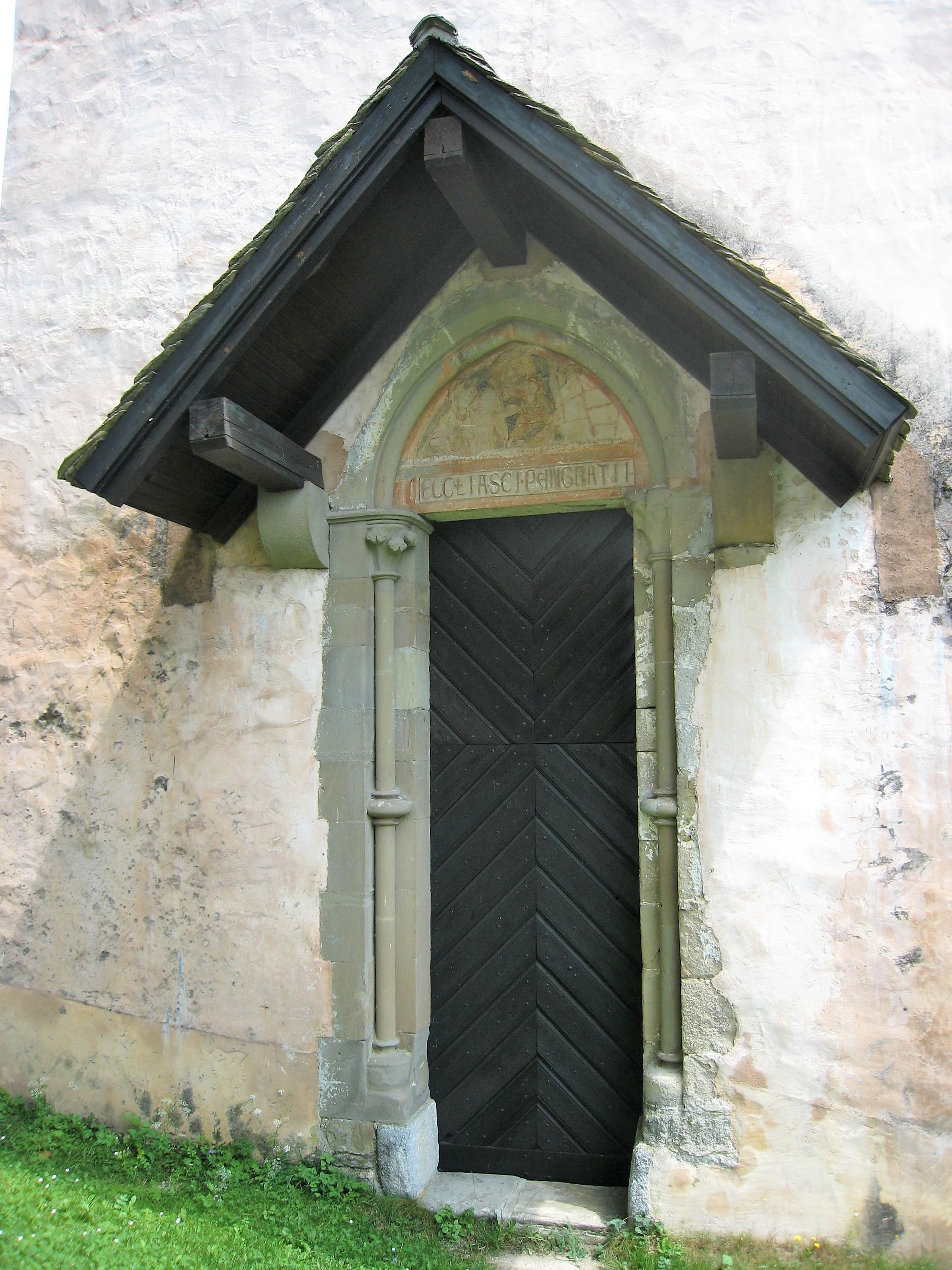 St. Pancras Parish Church, Slovenj Gradec: The portal of the church